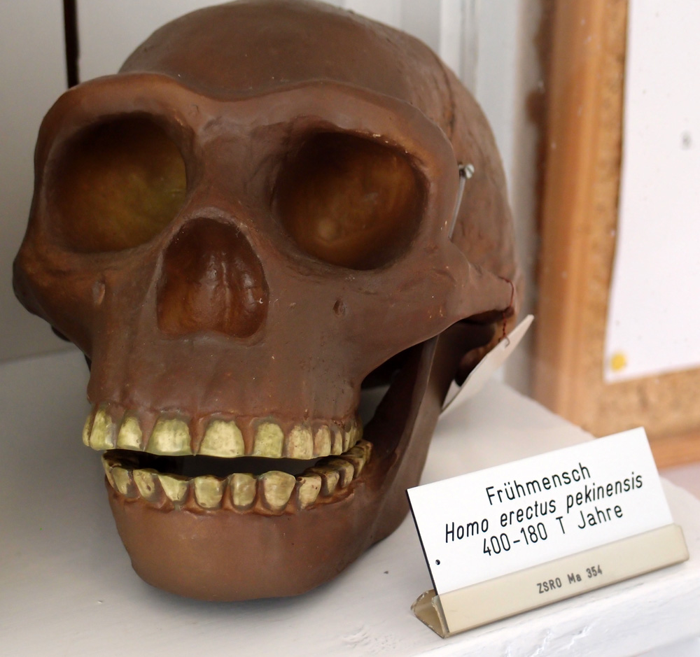 Model from the zoological collection Rostock, Germany. see also for more information on the models